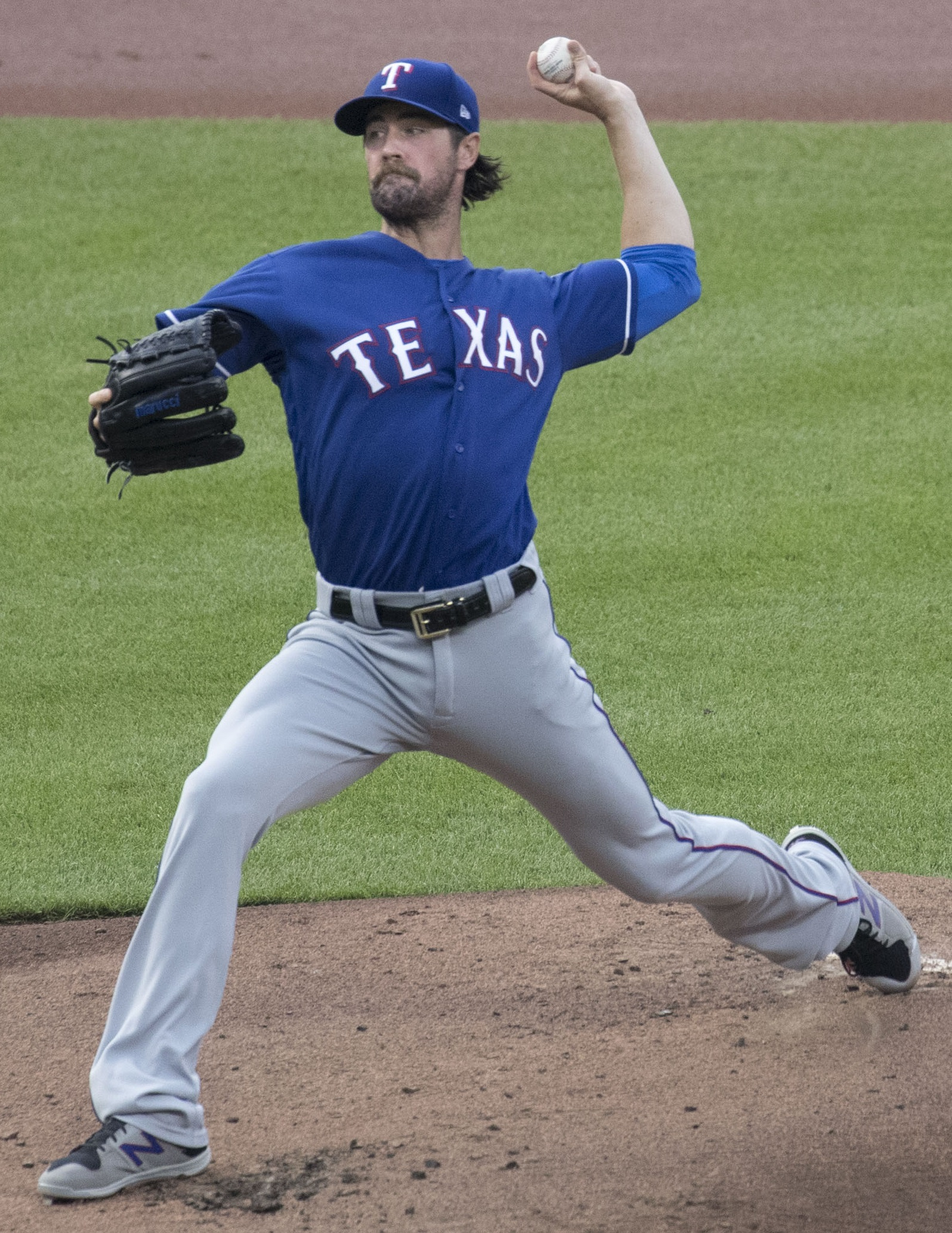 Rangers at Orioles 7/20/17